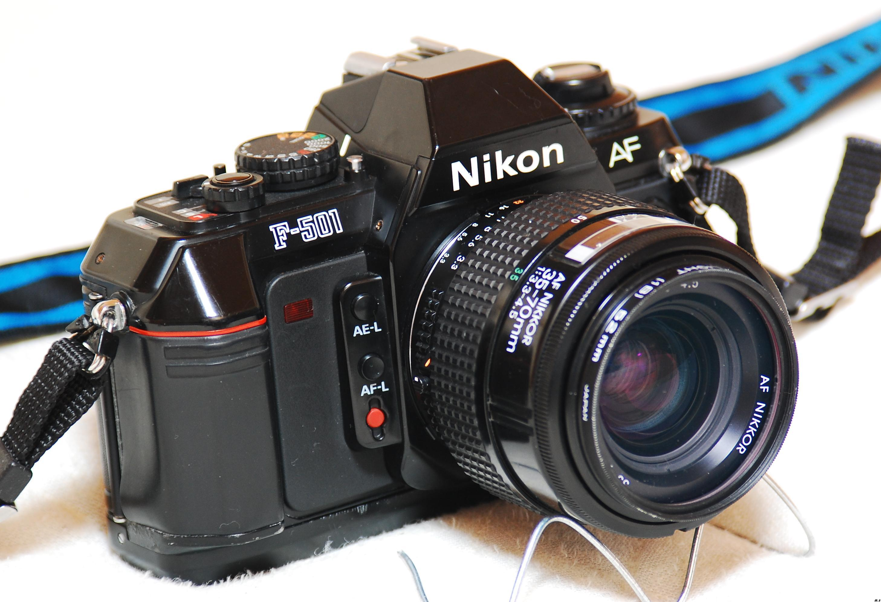 Nikon F-501